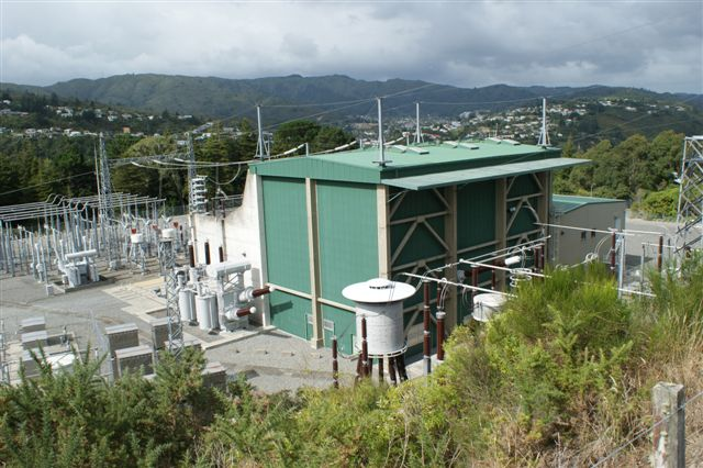 General view of the Haywards HVDC Pole 2 converter valve hall building, near Wellington, New Zealand